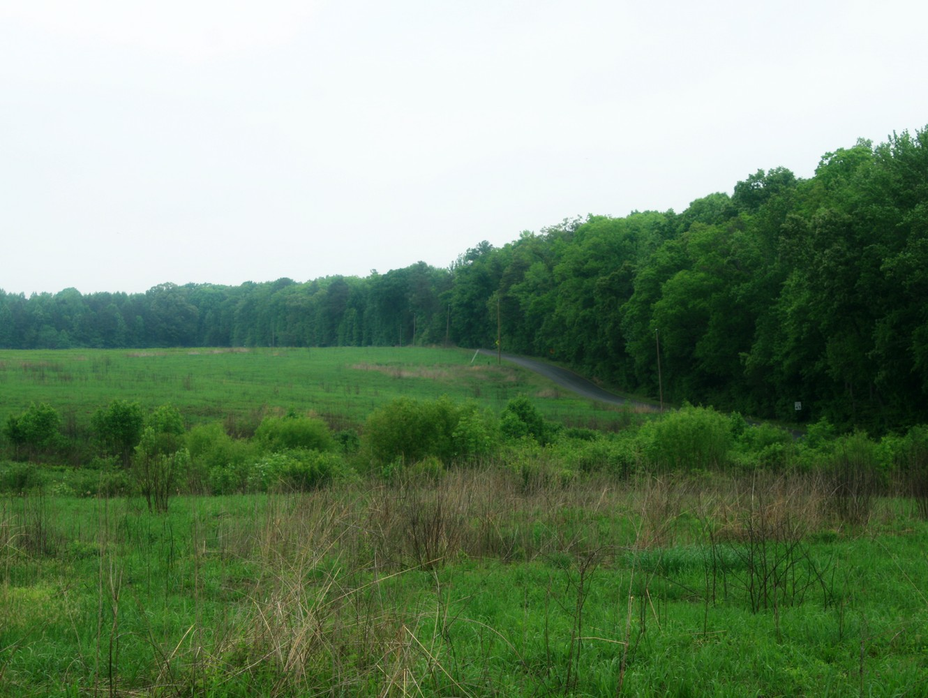 Depression on Malvern Hill battlefield